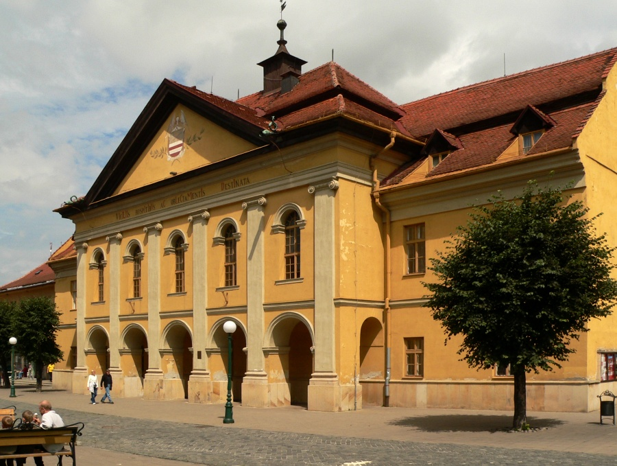 Library in Kežmarok